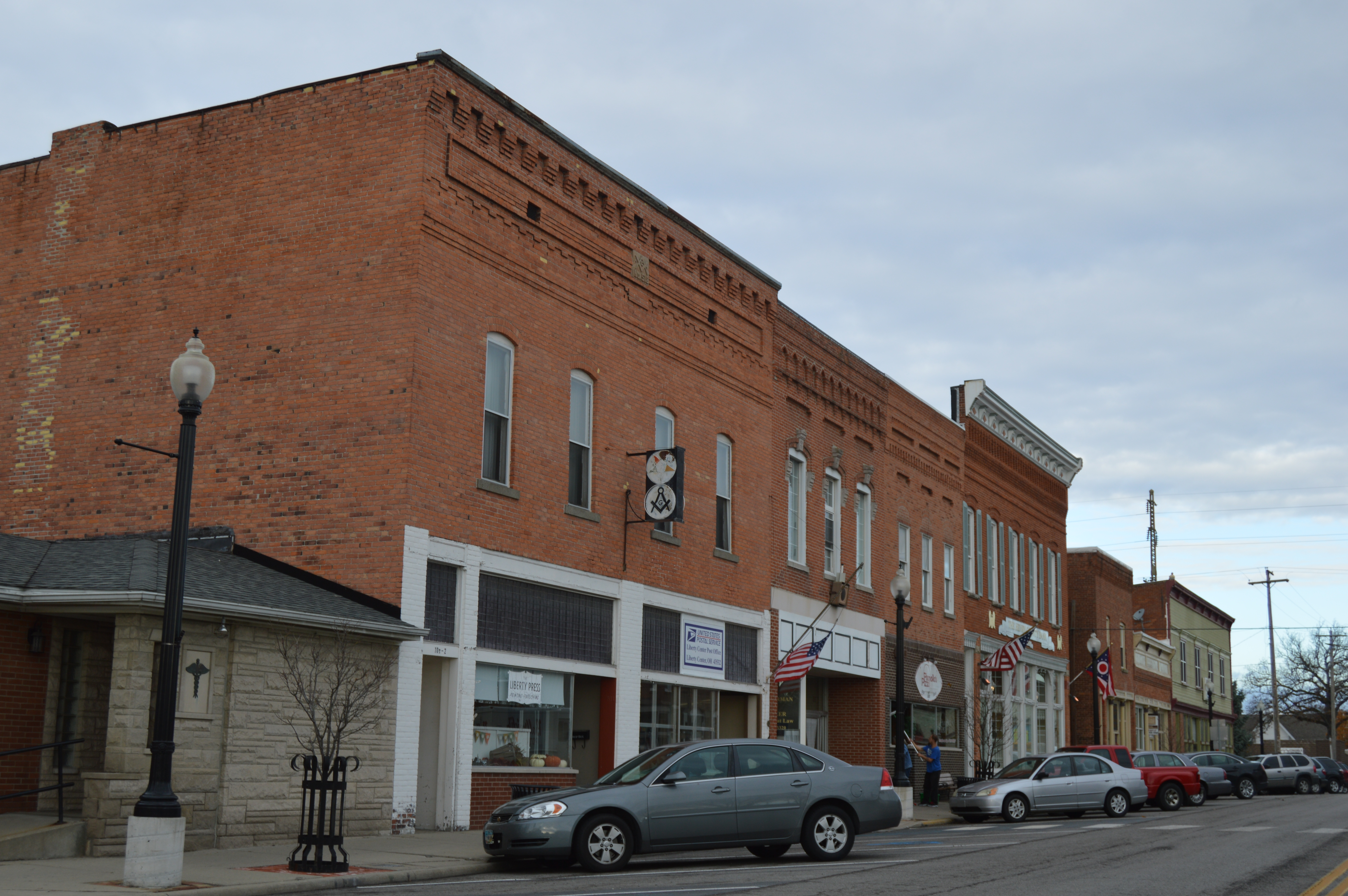 Buildings on the western side of East Street (State Route 109) north of the Maple Street intersection in downtown Liberty Center, Ohio, United States.